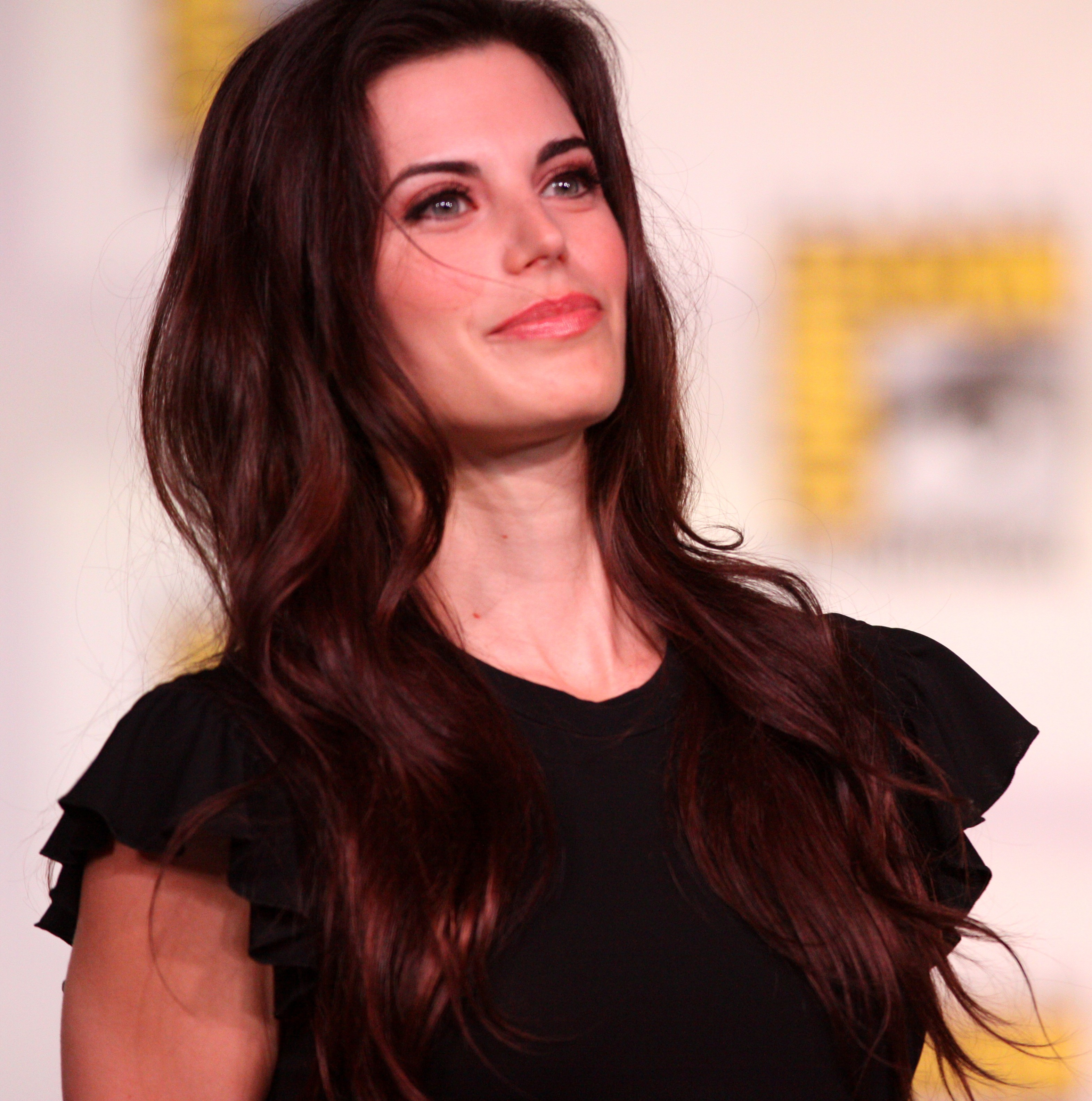 Meghan Ory speaking at the 2012 San Diego Comic-Con International in San Diego, California.